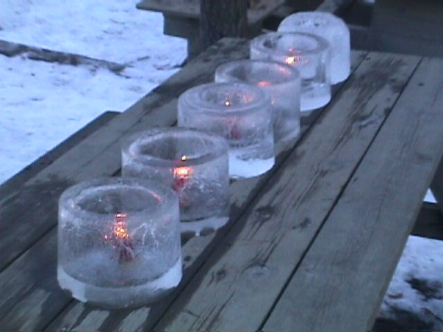 ice lantern